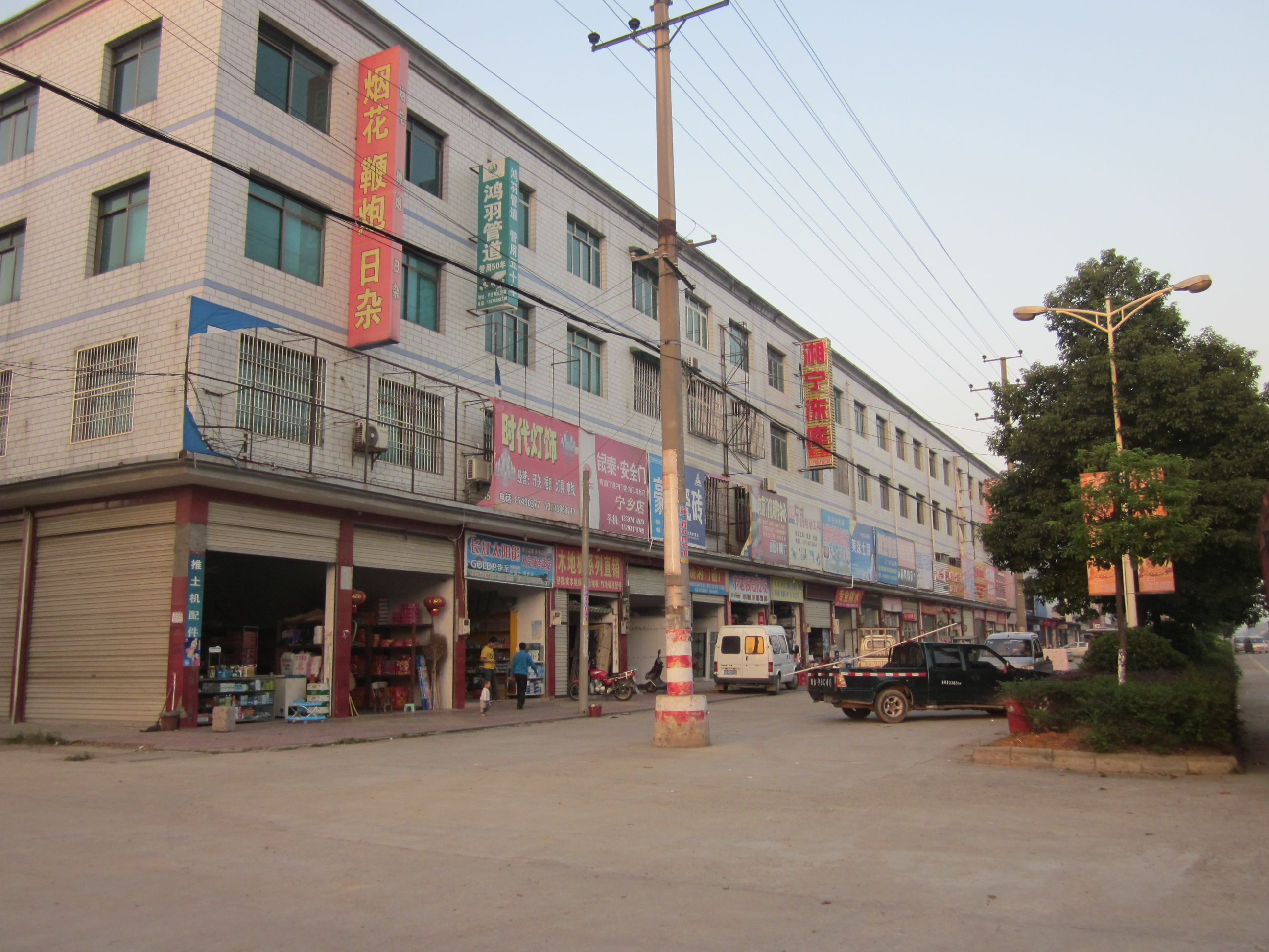 Shuangfupu Town(simplified